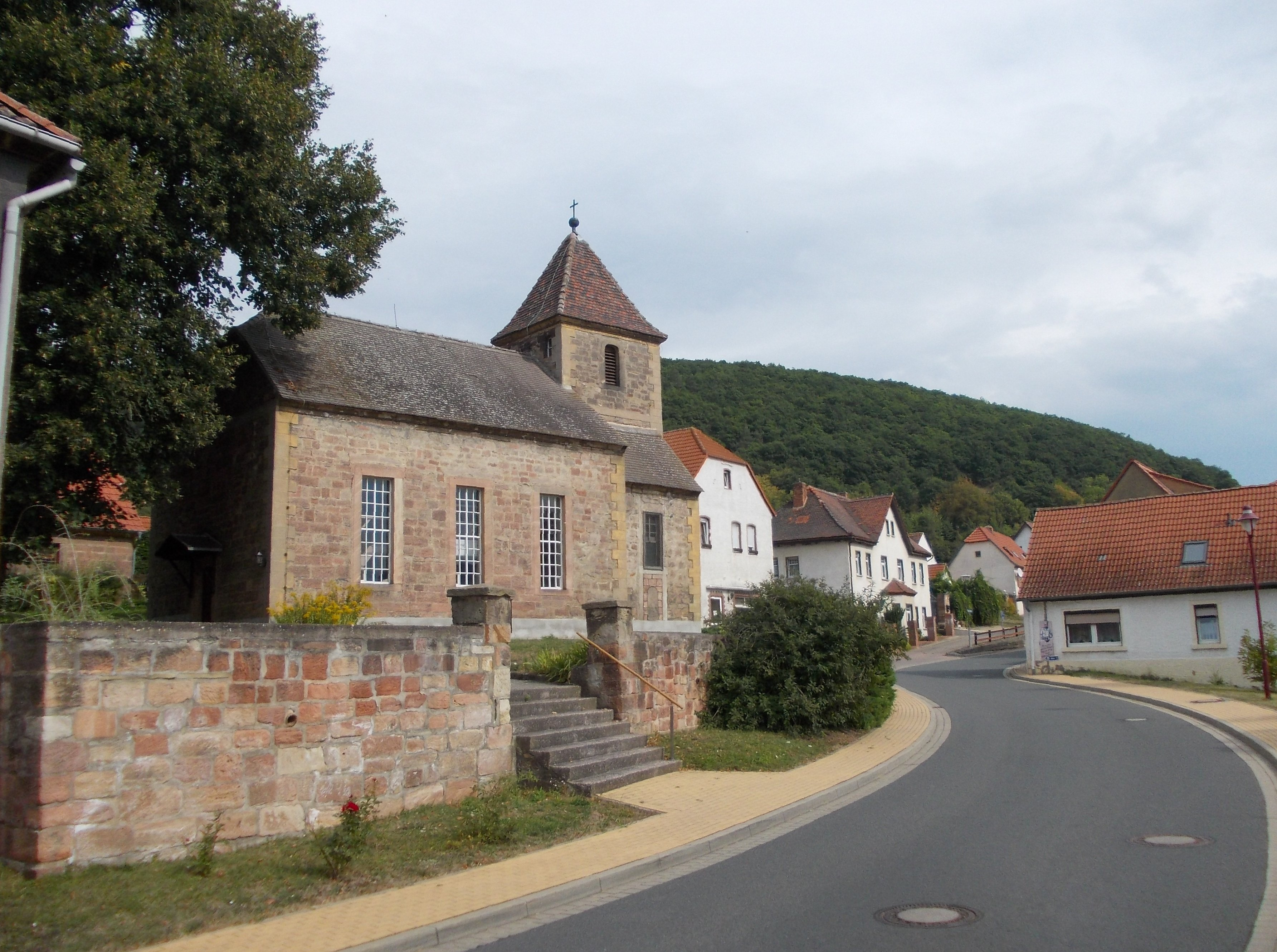 Kleinwangen church (Nebra/Unstrut, district: Burgenlandkreis, Saxony-Anhalt)